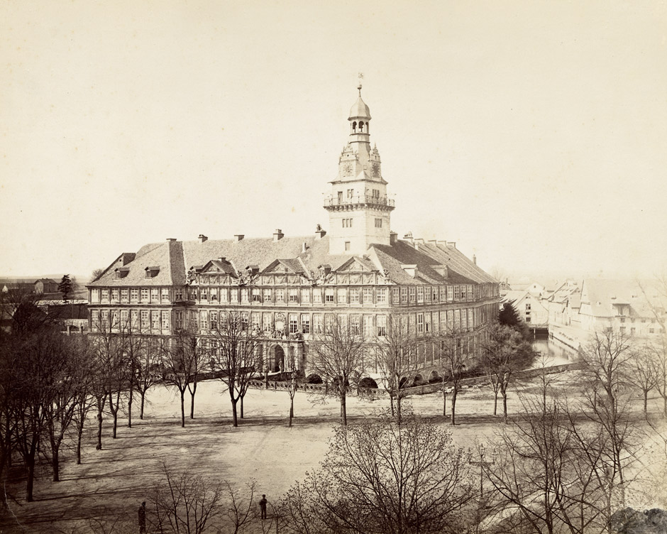 Schloss Wolfenbüttel, Late 1850s-mid 1860s. Provenance: The estate of Ernst August von Hannover, 3rd Duke of Cumberland